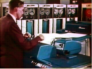 Screen shot from a US Government (NASA) video clip about Project Mercury. The tape drives are part of an IBM 7090 installation at the Goddard Spaceflight Center in Maryland. The printer in the foreground is an IBM 716.